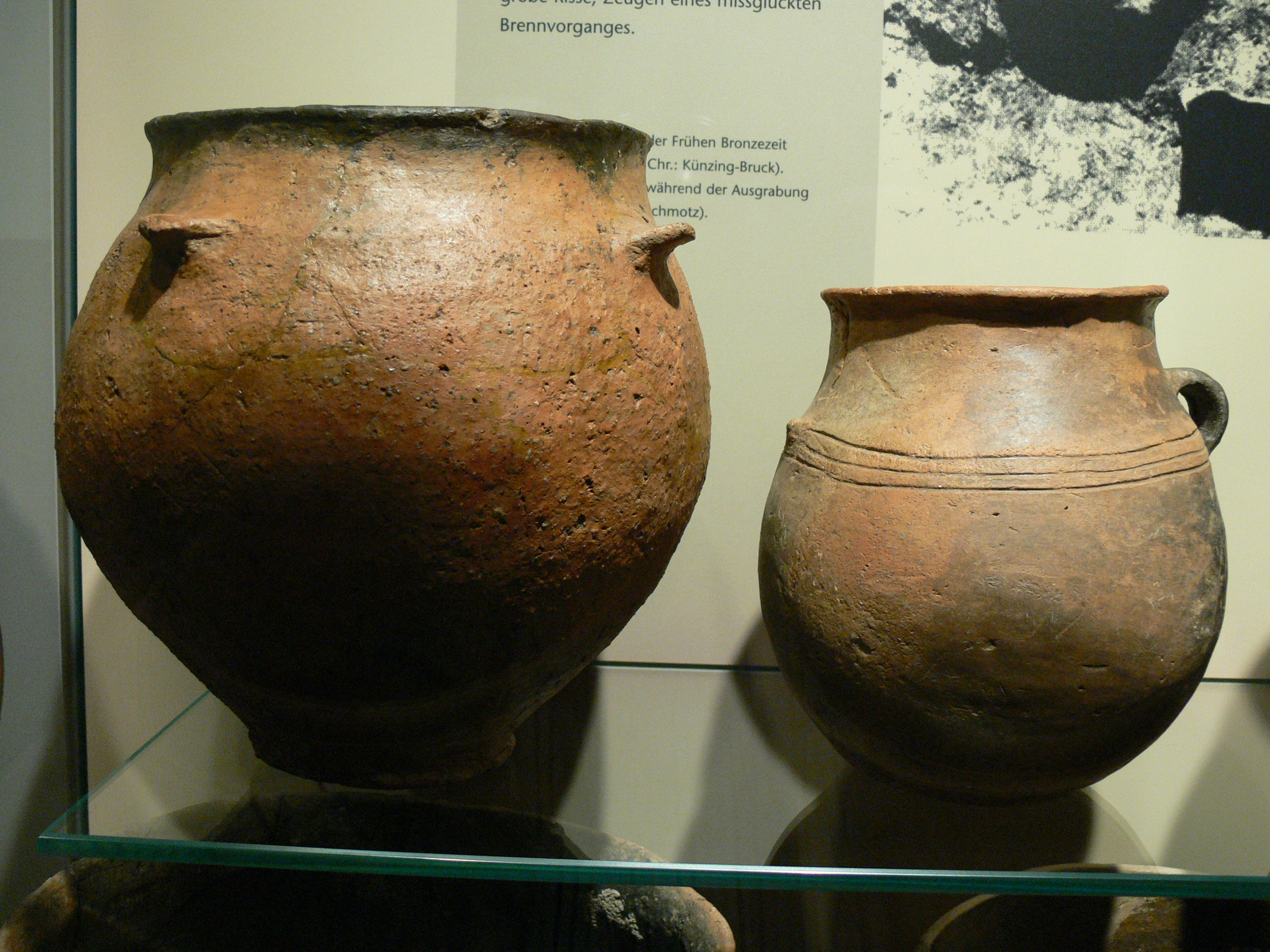 Museum Quintana. Early Bronze age pottery ( 2000 BC ).